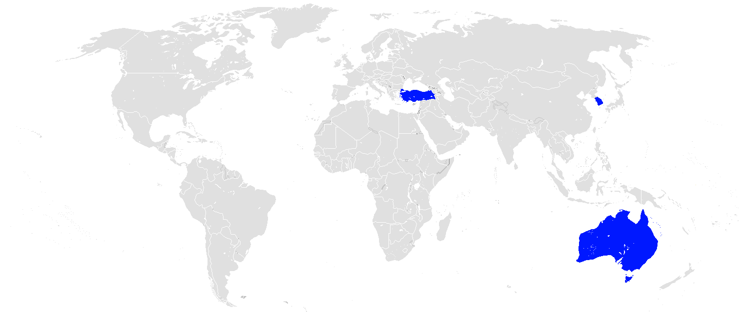 Map showing users of the Boeing 737 AEW&C in dark blue.